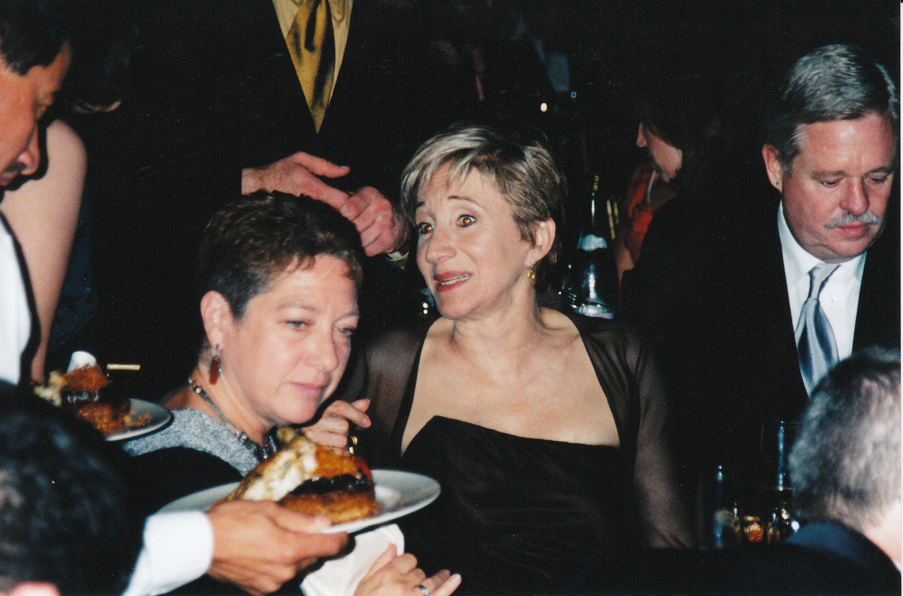 1998 Emmy Awards NOTE: Permission granted to copy, publish, broadcast or post any of my photos, but please credit "photo by Alan Light" if you can. Thanks.